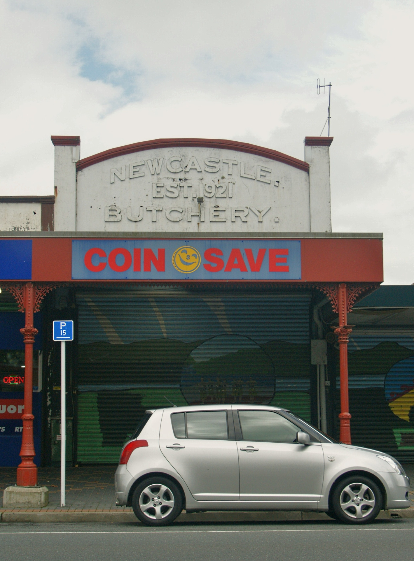 Newcastle Butchery building, Ngaruawahia, New Zealand